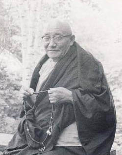 Buddhist scholars - Dezhung Rinpoche III seated on a stool, Chris Wilkinson, student seated at the feet of his lama, wearing Buddhist robes, malas, likely Seattle, Washington, USA